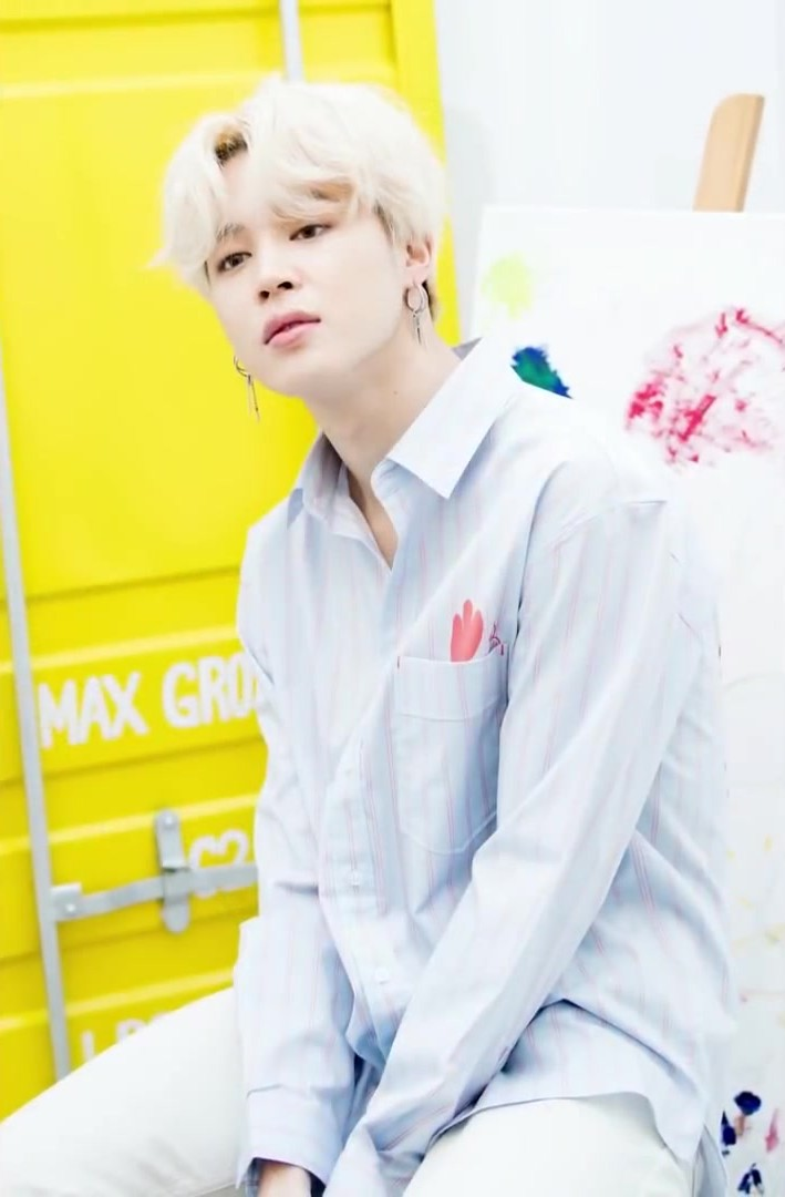 Park Ji-min for Dispatch White Day Special, 27 February 2019